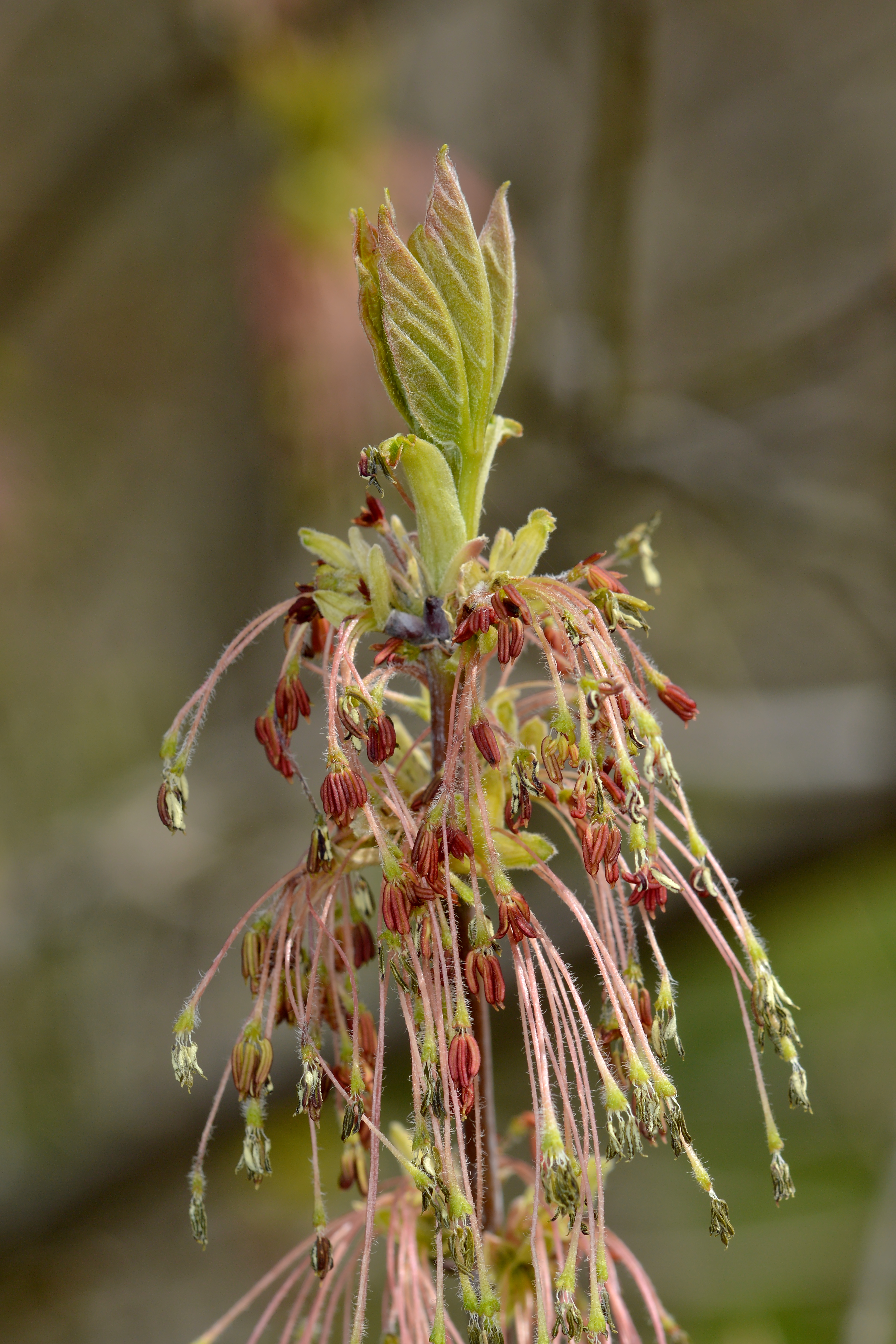 Boxelder (Acer negundo) in Guelph, Ontario, Canada.